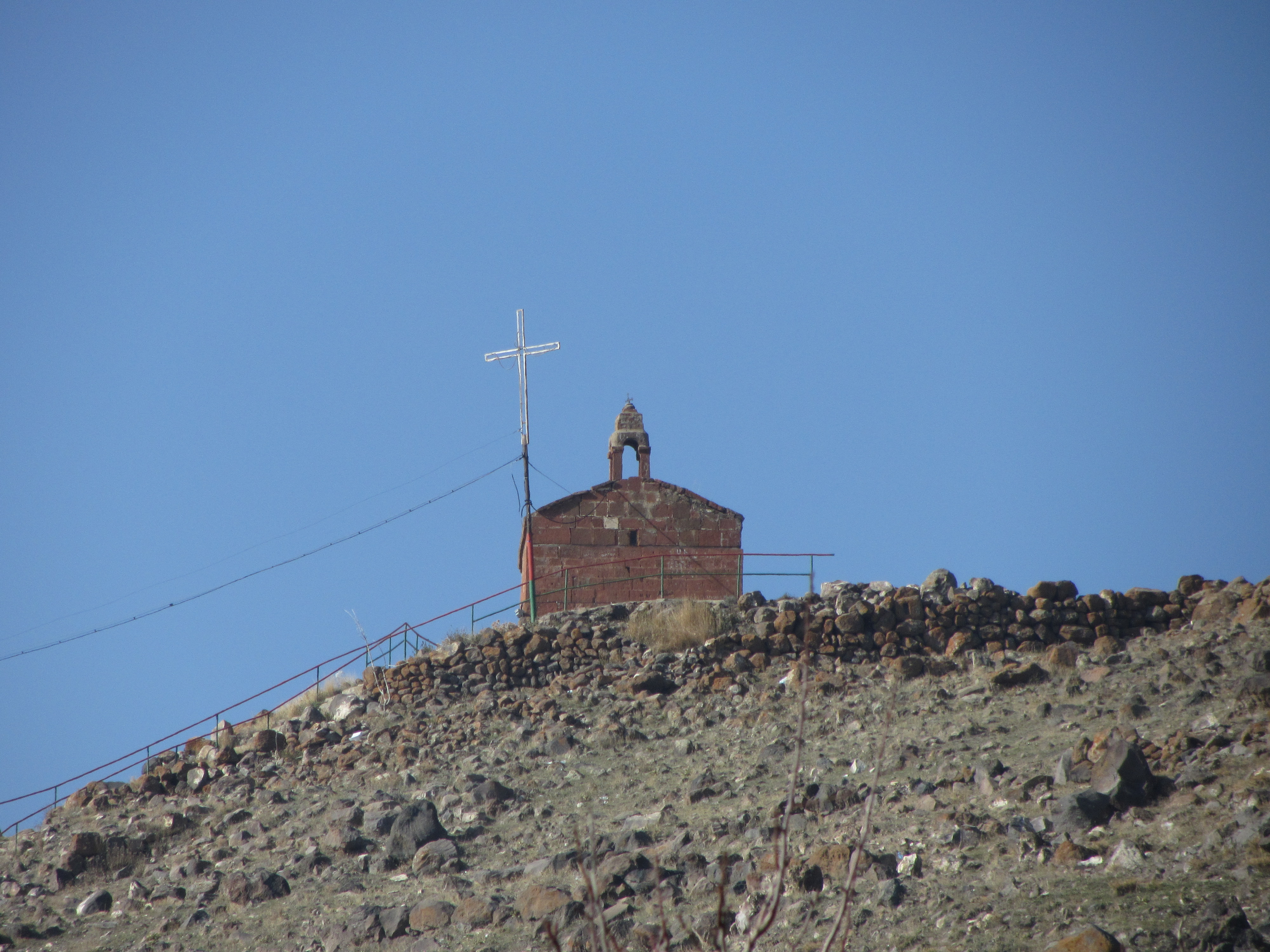 Mastara, Surb Stepanos Nakhavka Church (6c.)